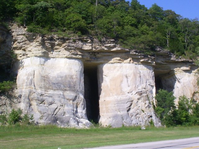 Description: A bluff of the St. Peter sandstone formation in Pacific, Missouri. Caption: This bluff in Pacific, Missouri, consists of St. Peter sandstone capped by Joachim dolomite. The mines visible in this image have long been abandoned. Active mining continues in 2004 in an open pit mine beyond the hill pictured here. This view is along historic U.S. Route 66 (East Osage Street). Source: This picture was taken July 31, 2004, for use on Wikipedia by Kbh3rd and is hereby released into the public domain. Location